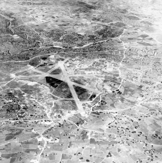 High oblique aerial view of Luqa airfield, Malta, taken at 1,700 m (5,000 ft) from the south-east.